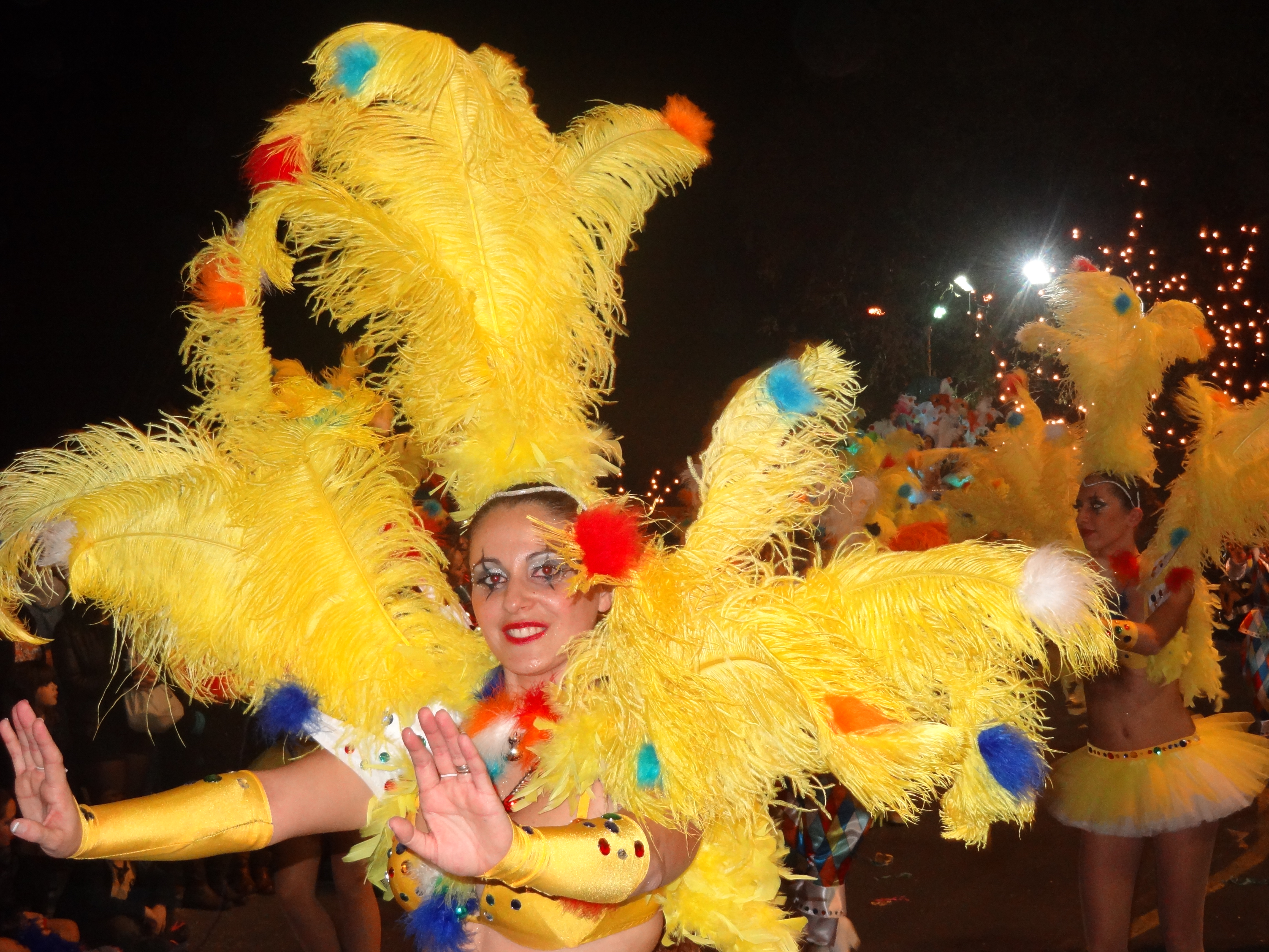 The street carnival in Funchal